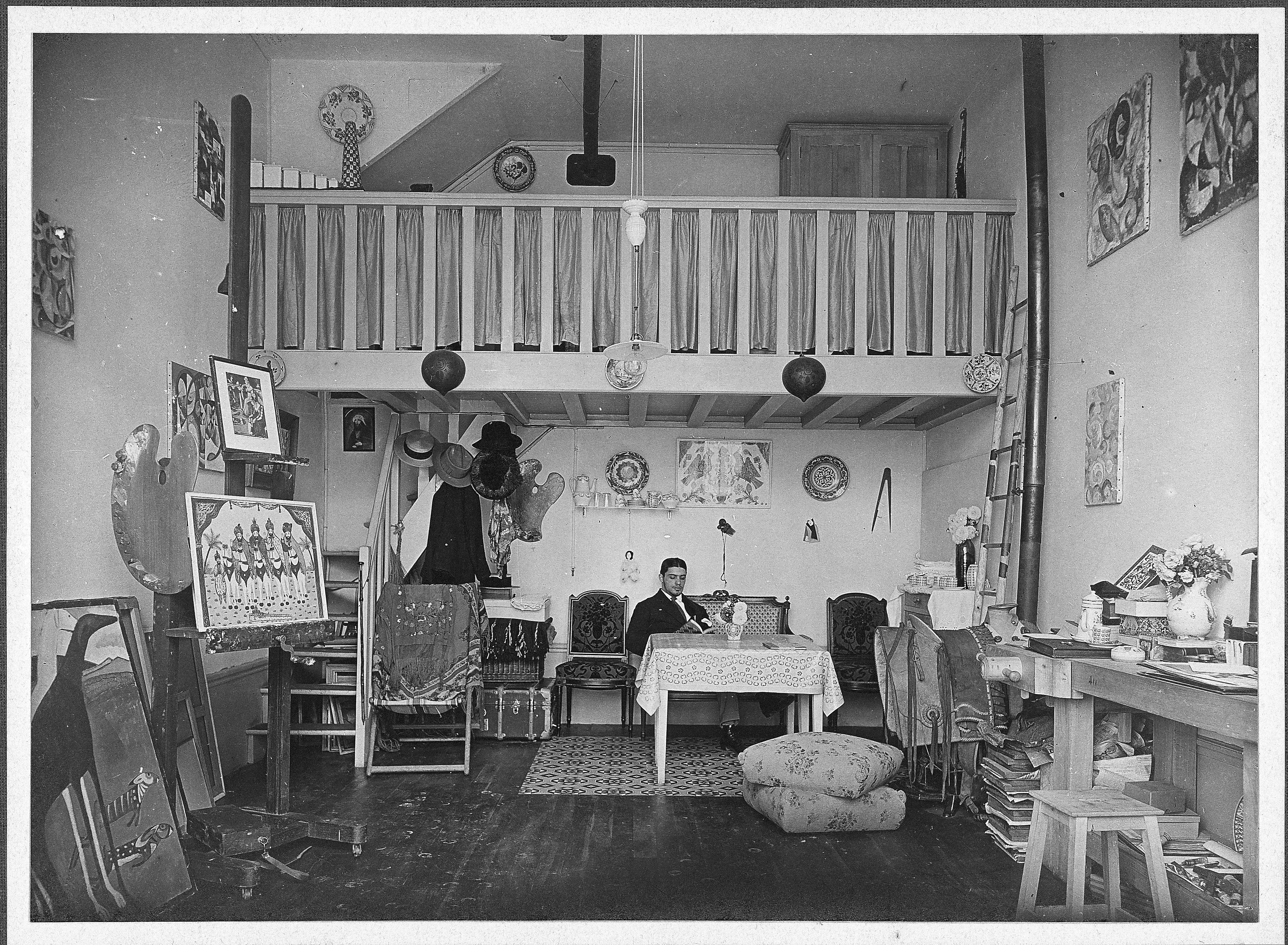 Amadeo de Souza Cardoso (1887-1918) at his atelier in Paris (France), 14th arrondissement, 20 rue Ernest Cresson, 1913.